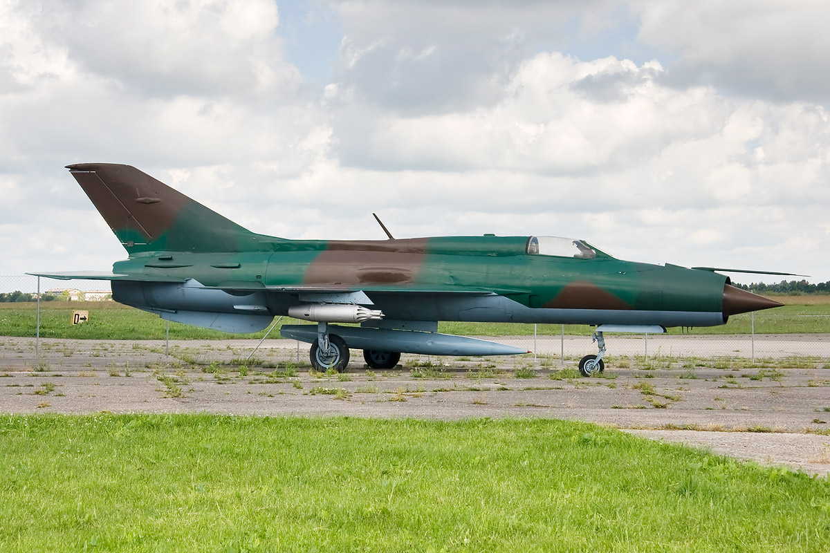 MiG-21PF